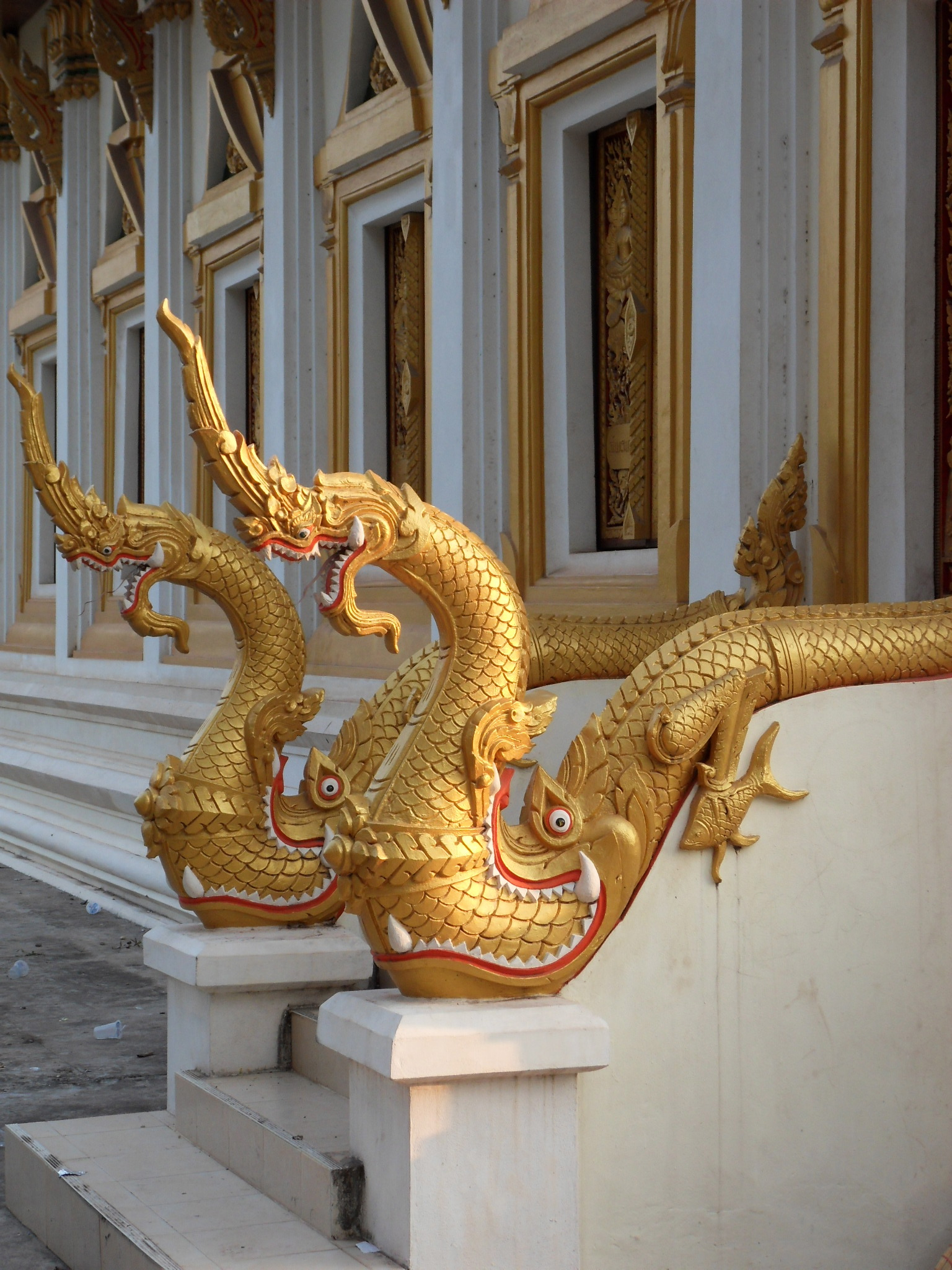 Vat That Phun, Vientiane